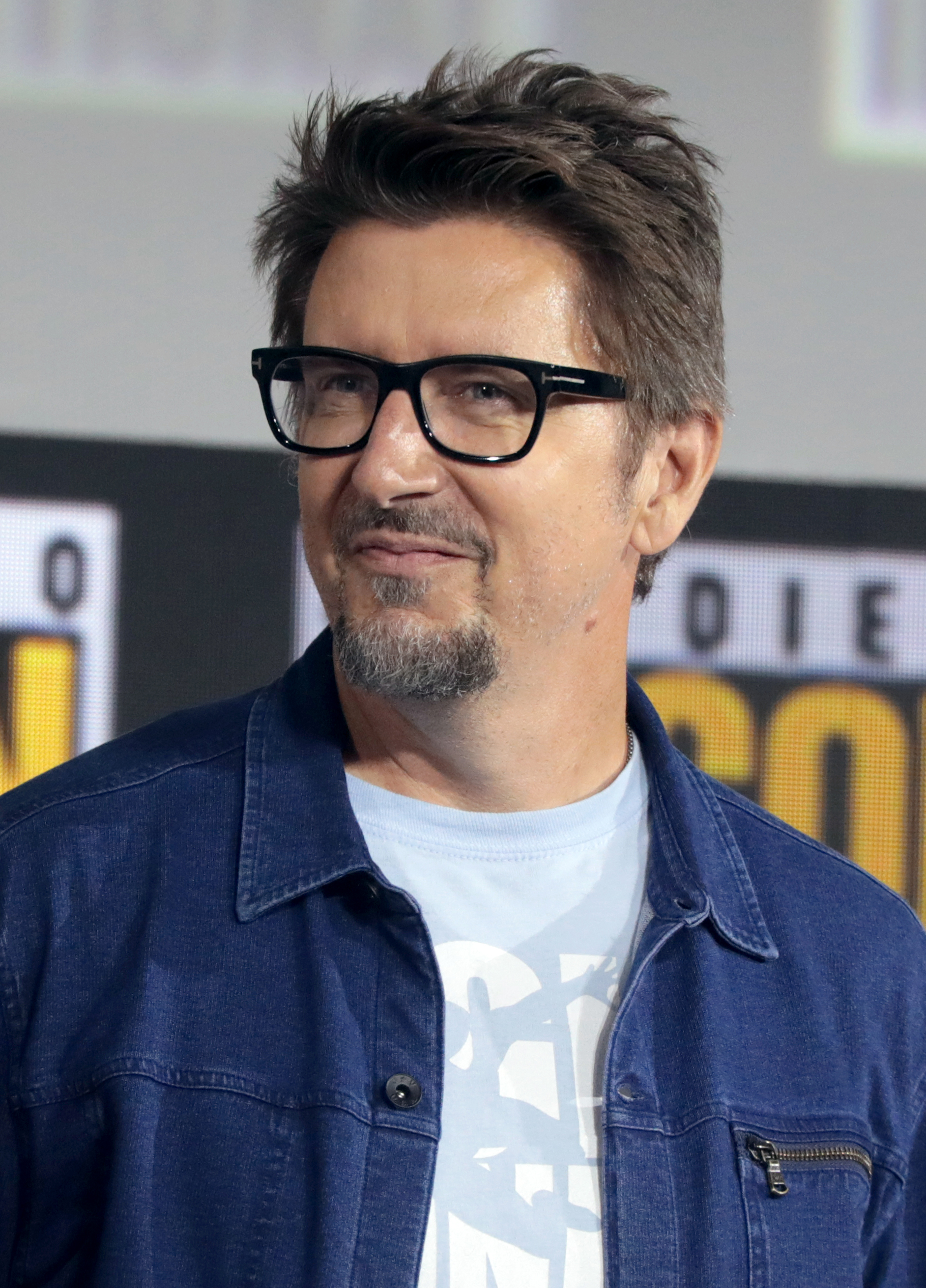 Scott Derrickson speaking at the 2019 San Diego Comic-Con International in San Diego, California.